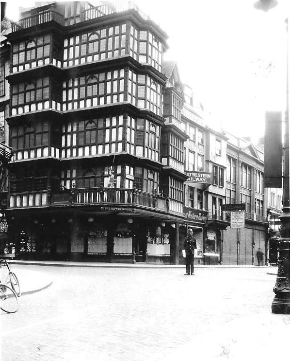 Scan by the contributor of 1931 photo by his mother Doris Ogilvie (now deceased) of the historic Dutch House in Bristol that was bombed and destroyed in World War II. This photo clearly shows the ground floor cut back diagonally 8 feet 6 inches in the extensive 1908 alterations to widen the corner of Wine Street with High Street